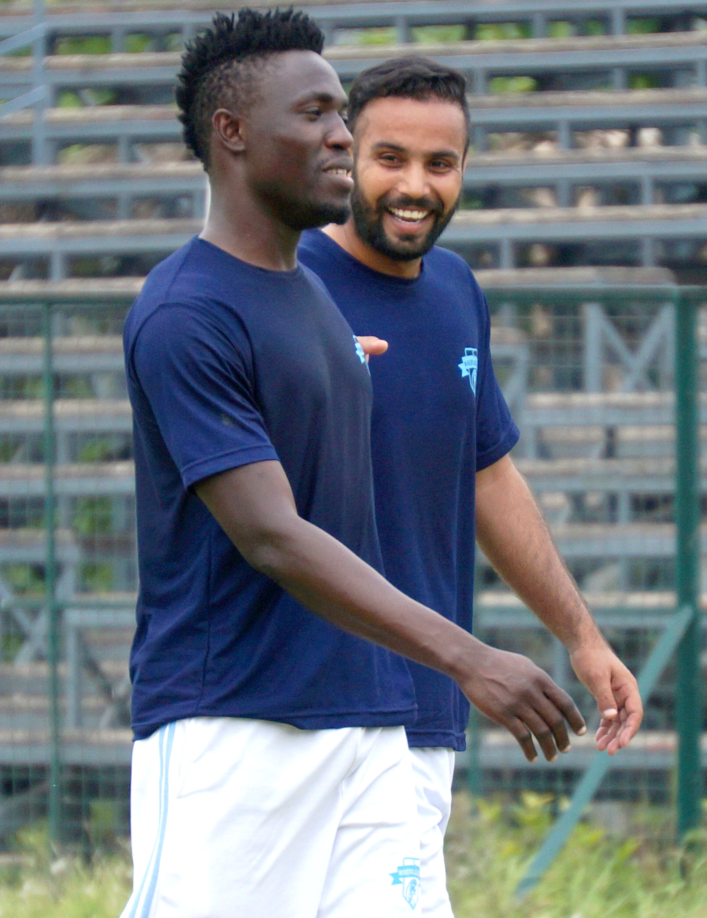 Kareem & Sehijpal Singh during trining session.